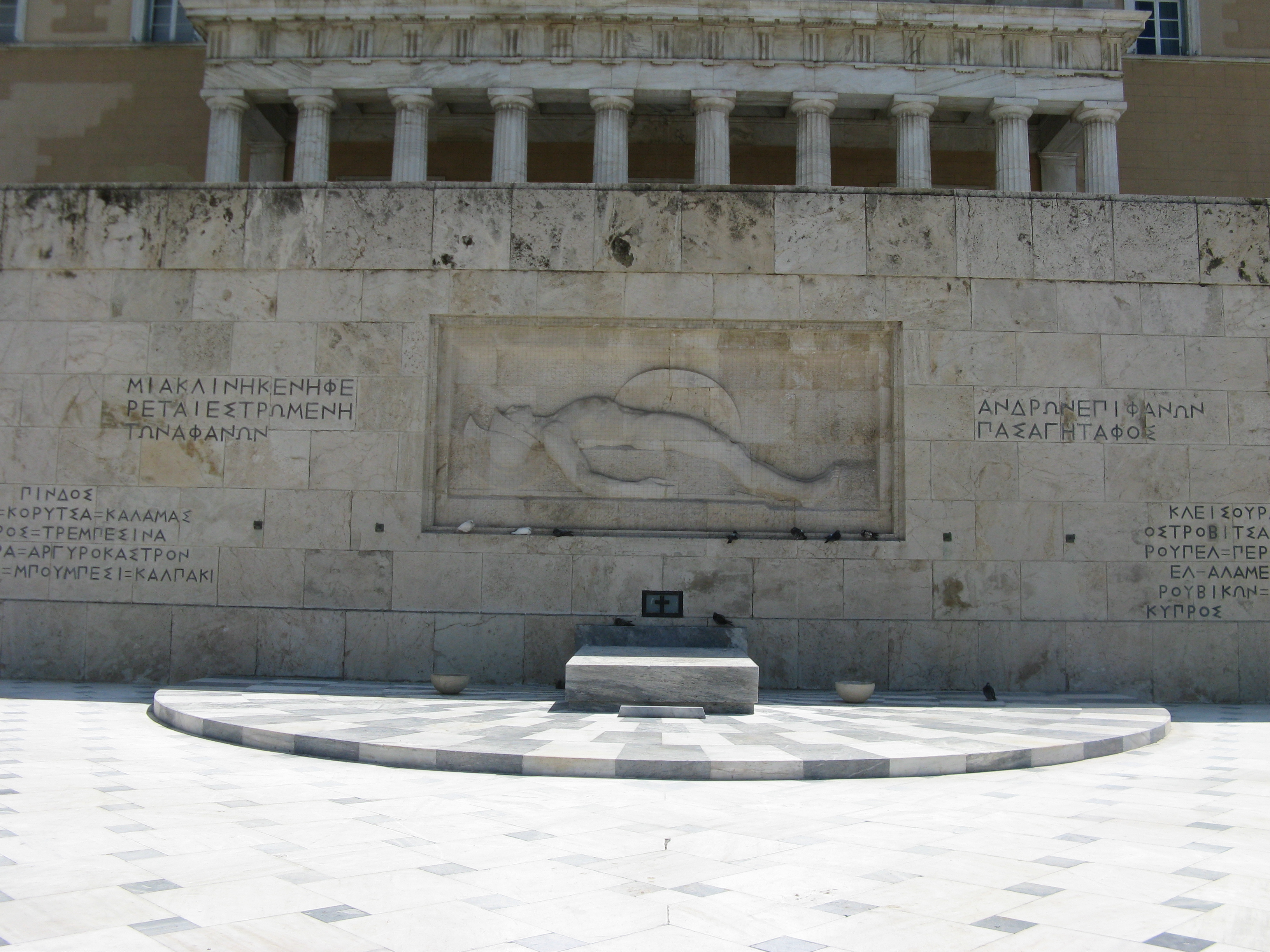 Tomb of Unknown at Syntagma Square. Bas-relief at the foundation of Greek Parliament building.